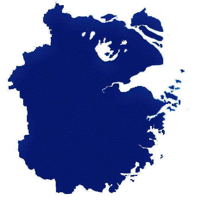 Map of Wuyueh region 吴语区